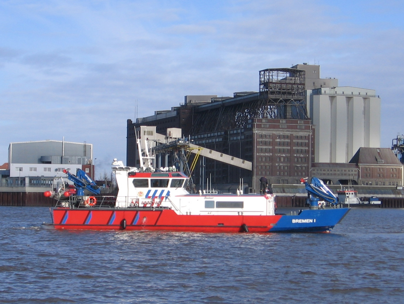 "Bremen 1", combined police and firefighting vessel